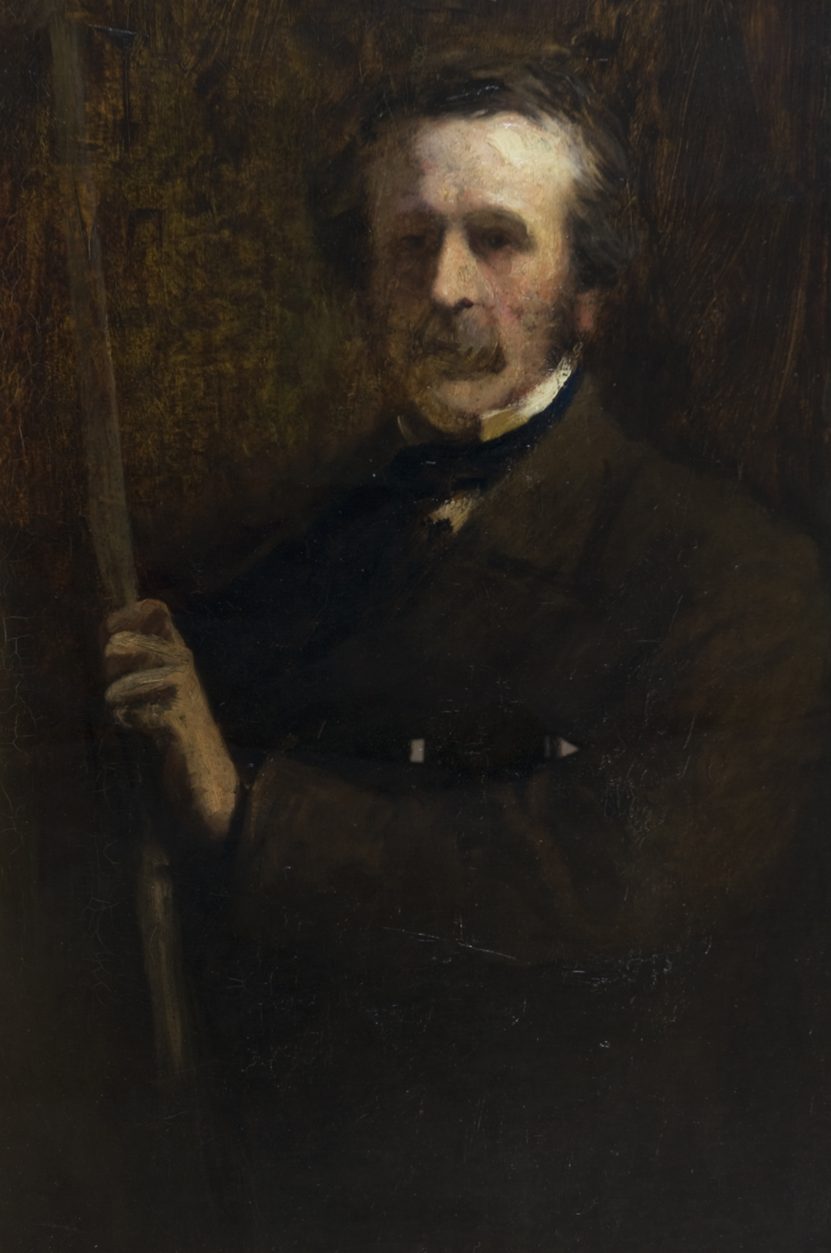 Self portrait of James Irvine the Scottish portrait painter died 1889 - born 1822 according to ODNB